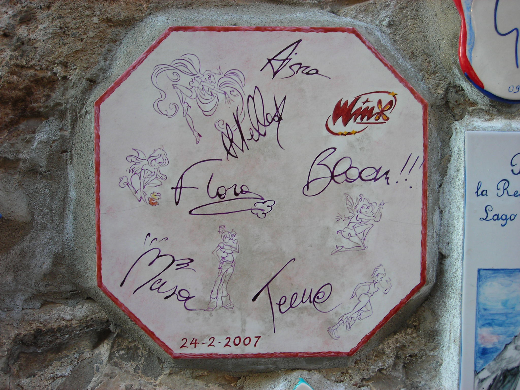 A tile in a murial of Alassio autographed by the Winx.